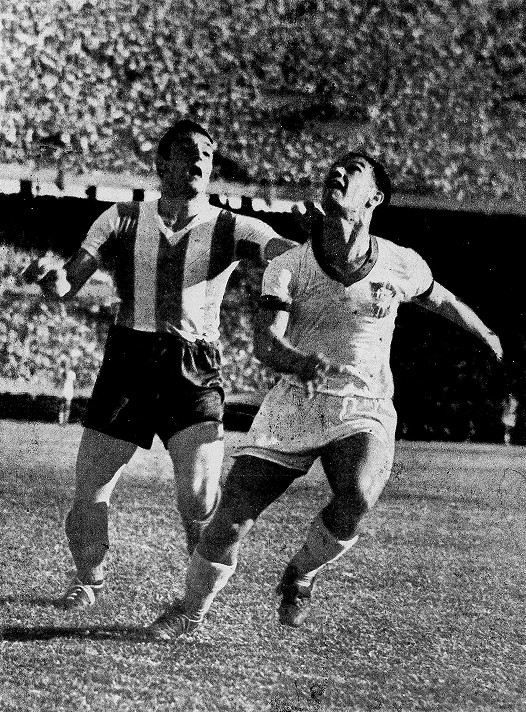 Argentina's Juan Carlos Fonda and Brazil's Francisco "Chico" Aramburu at the Southamerican Championship match 10/02/46, Buenos Aires, Monumental de Núñez